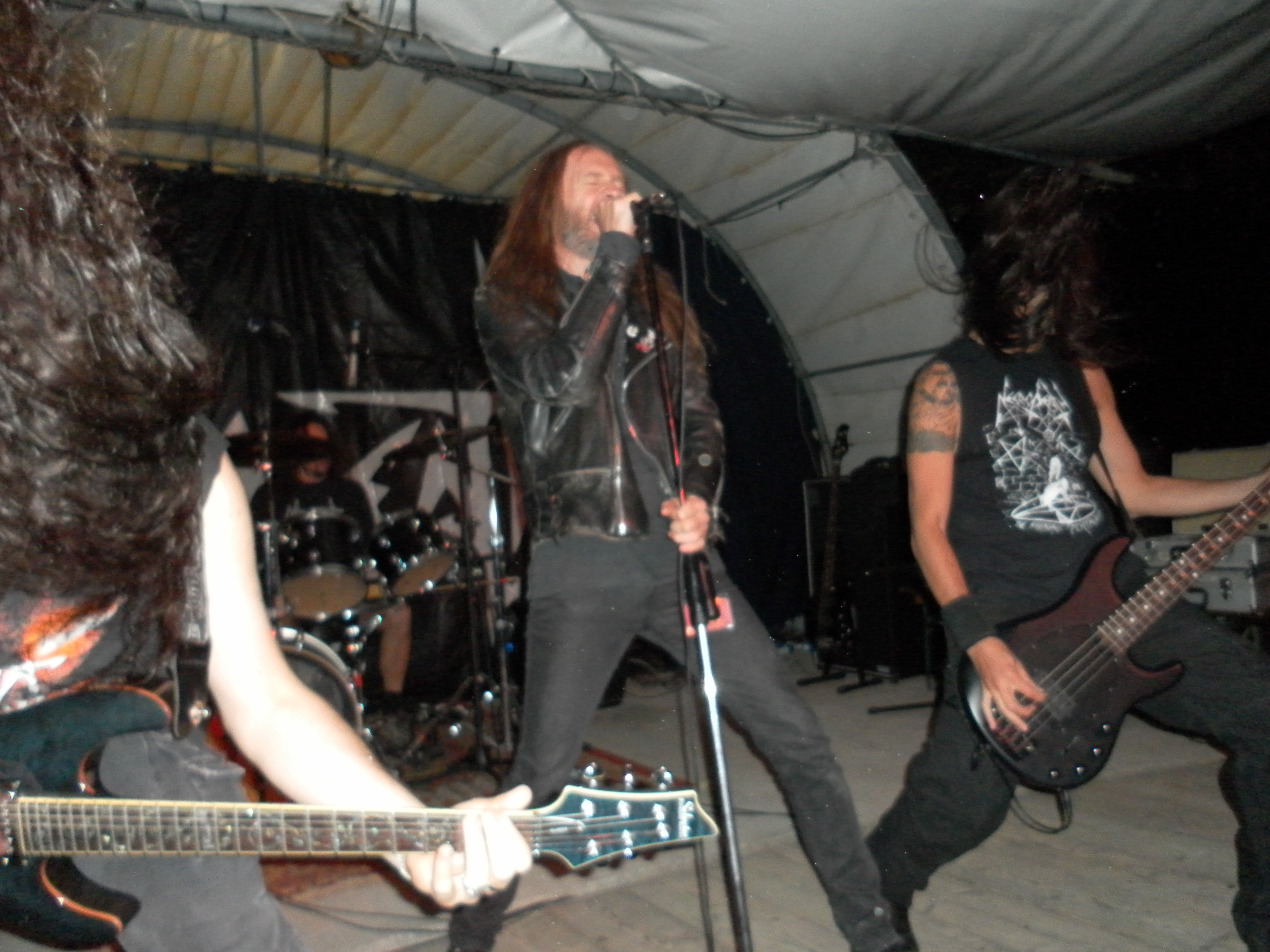 Necrodeath at Korxefest in Crocefieschi (GE) - 10 sept, 2010